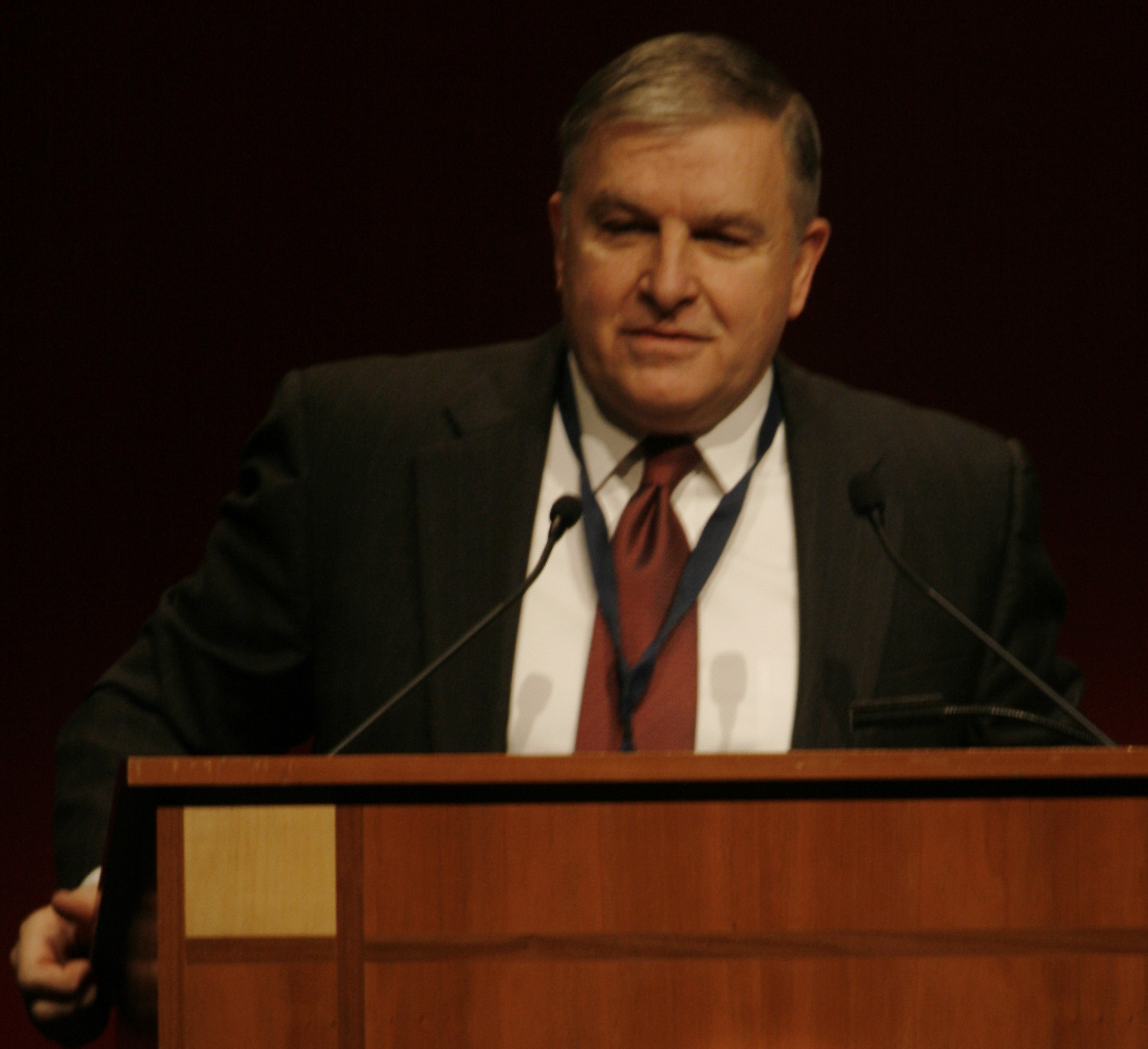 Retired USMC General Anthony Zinni speaking at the "Pass the Baton" event in Washington, D.C. The event was sponsored by the US Institute of Peace.